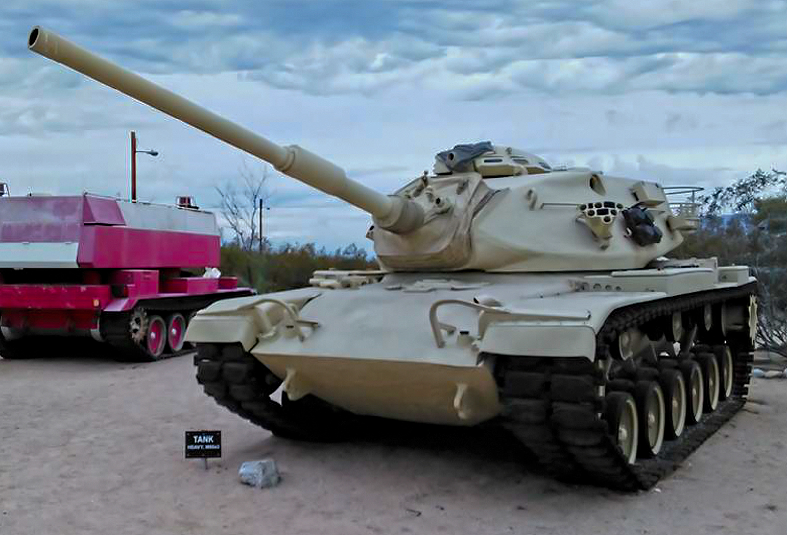 September 21, 2015 By TBDelCoro TDelCoro